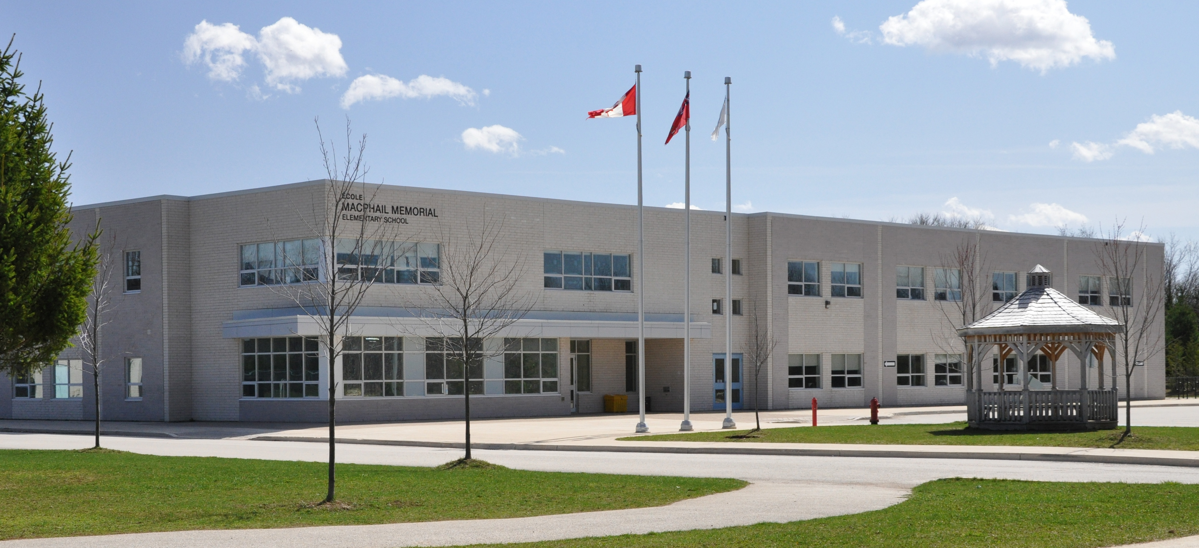 Macphail memorial Elementary School, built in 2007 on the same grounds as a former school of the same name. It is named for Agnes Macphail, who in 1921 became Member of Parliament for this area, and the first woman in Canada elected to the House of Commons.